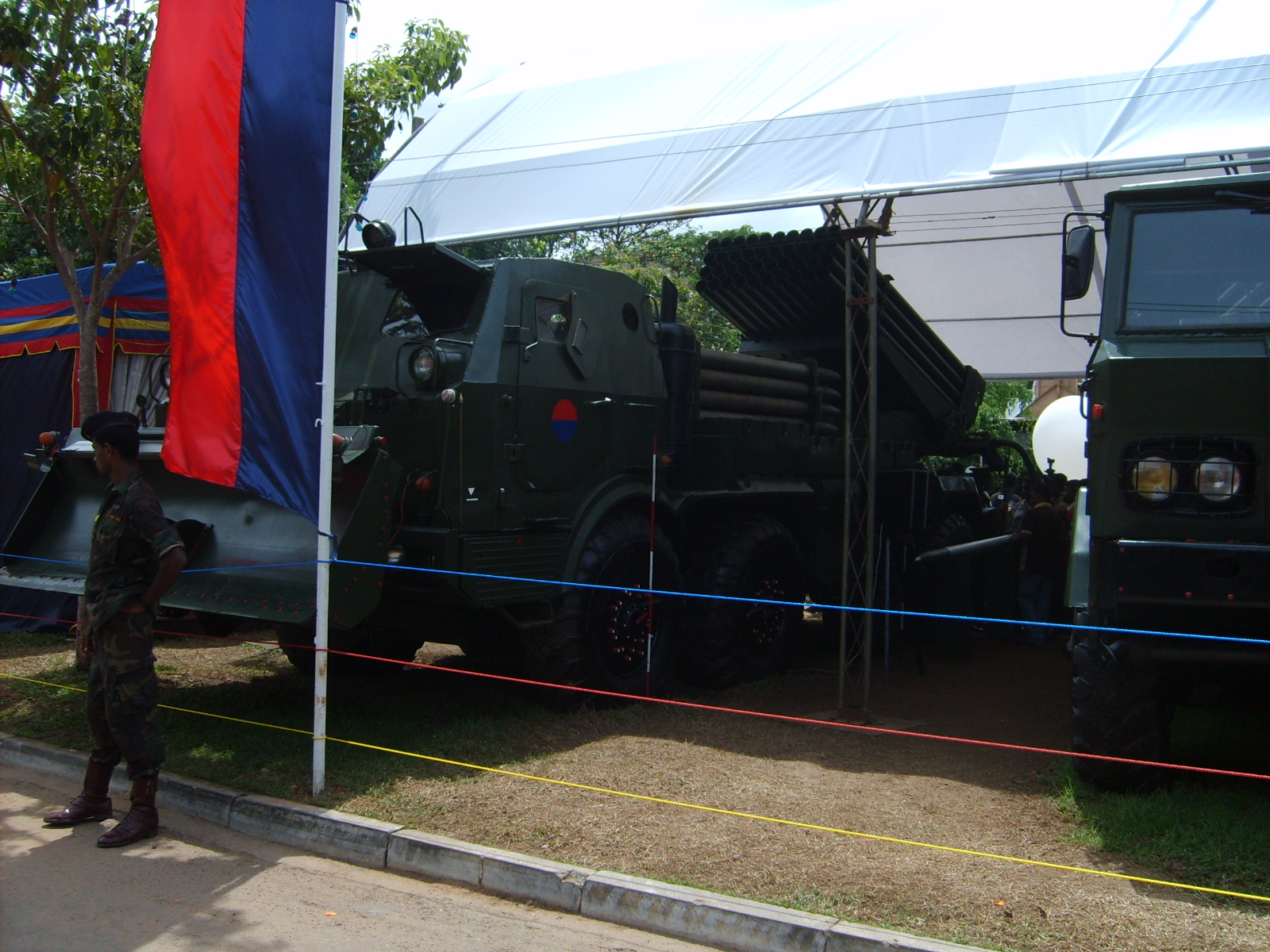 A RM-70 Multiple rocket launcher of the Sri Lanka Artillery on display at the Army 60th Anniversary Exhibition